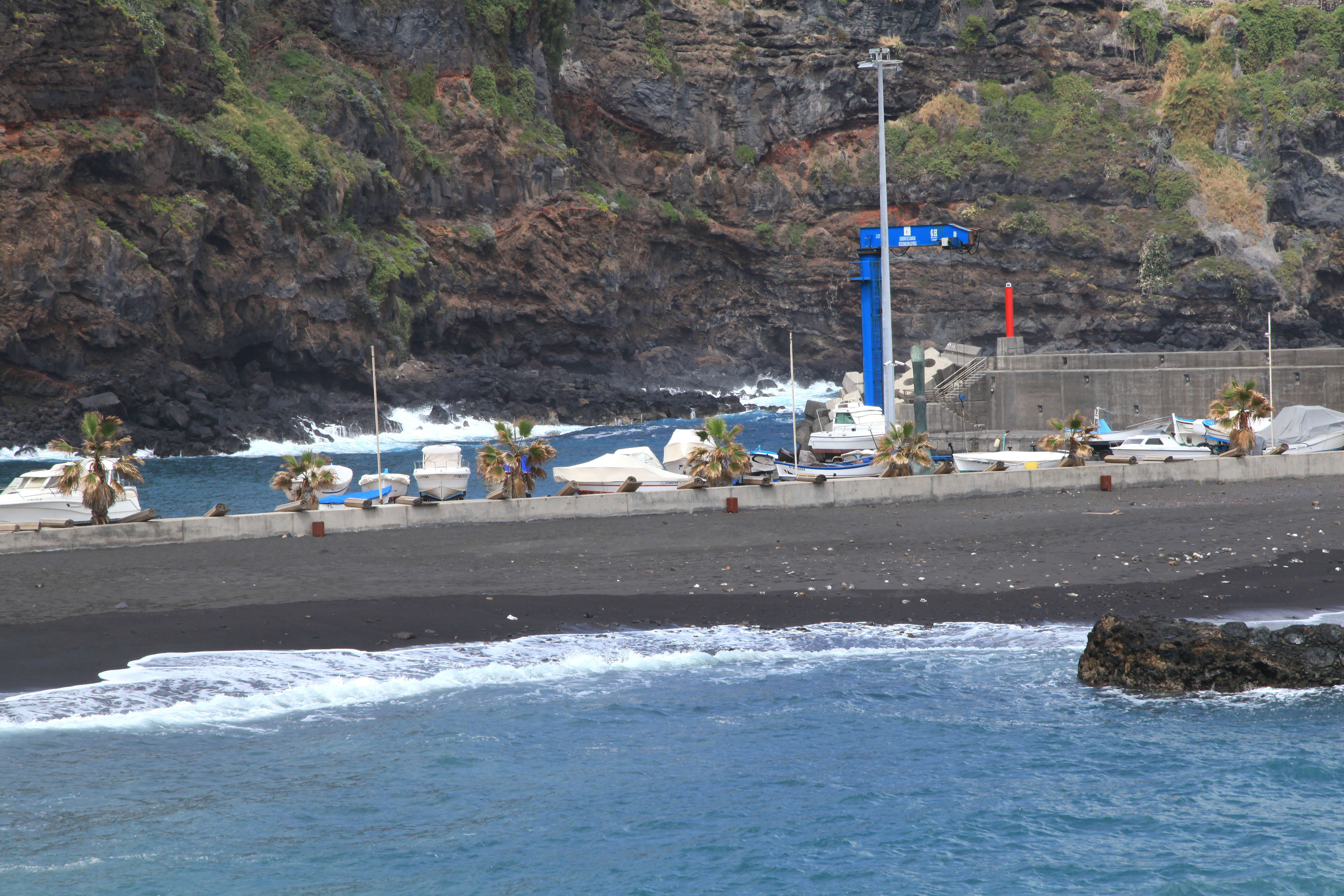 Puerto Espíndola, Camino Puerto Espíndola in San Andrés y Sauces, La Palma, Canary Island, Spain